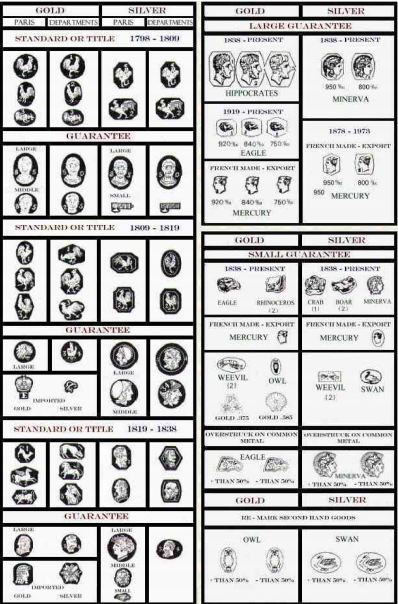 French hallmark